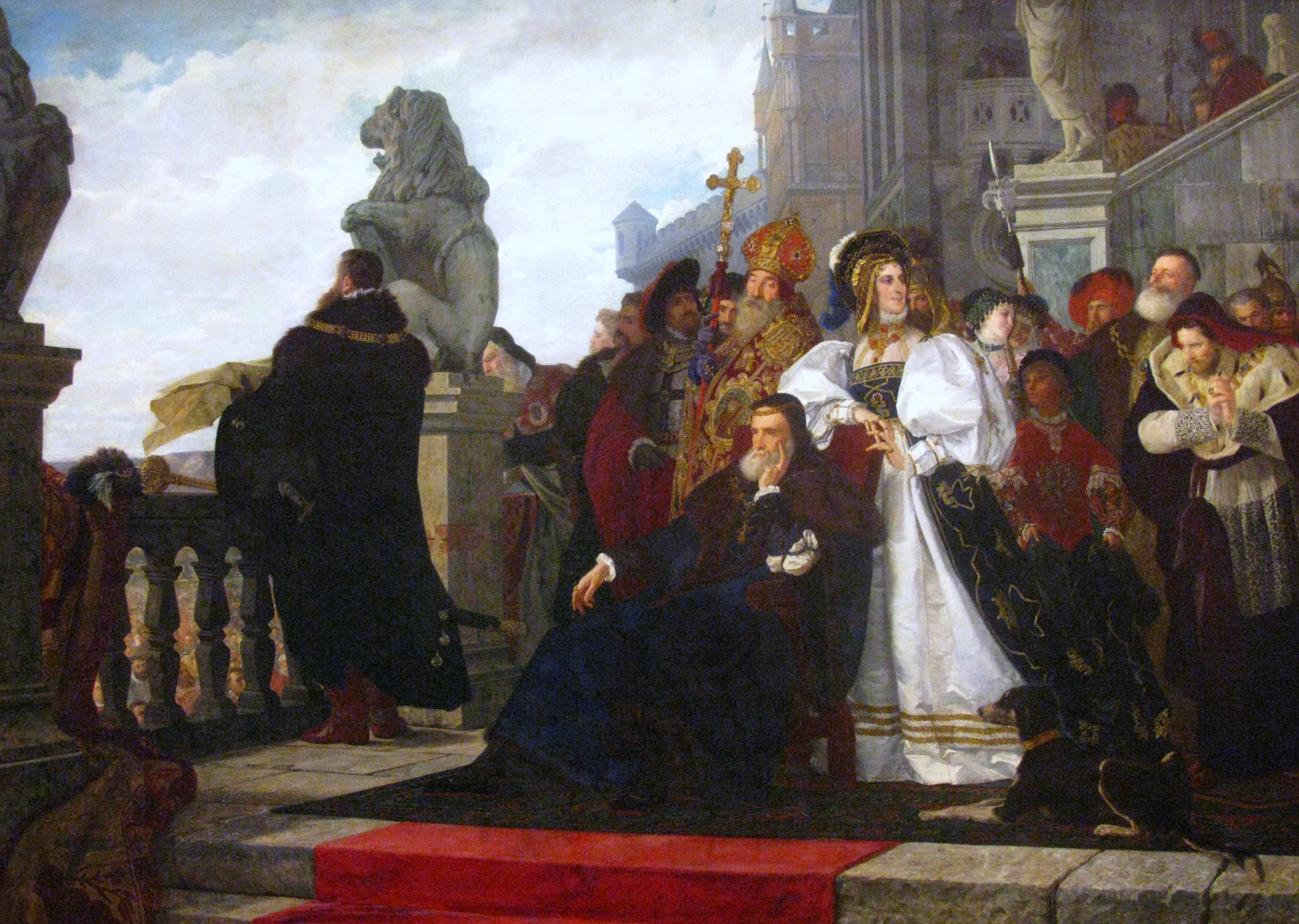 1537 in Poland: King Sigismund the Old and his Court during the Noblemen's Rebellion. Over the King triumphant Queen Bona, by the railing General Jan Tarnowski speaks to the rebellious noblemen.